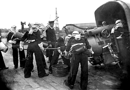 Awm caption : Portsmouth. Wearing flash protectors and gas masks, unidentified gunners carry out gun drill on board HMAS Sydney under the supervision of a lieutenant. Two men are firing the gun, three are cleaning the gun barrel and the others wait to load shells into the gun. This shows a BL 6 inch Mk XI gun.